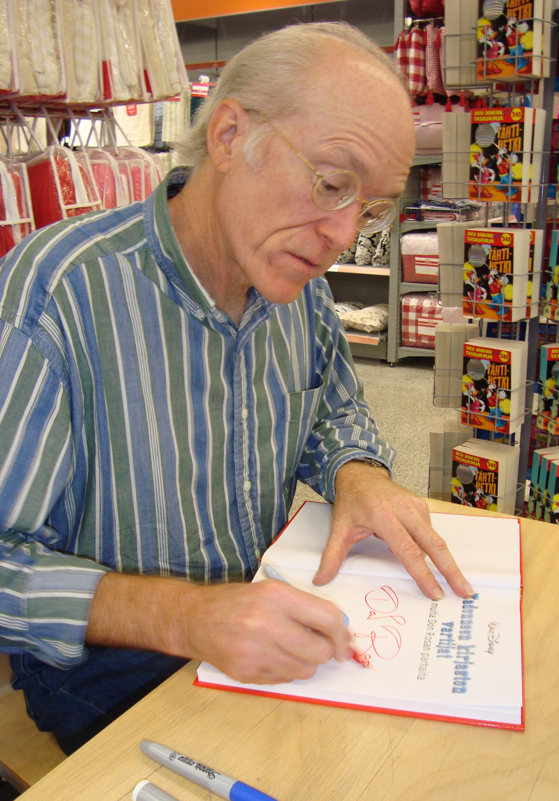 Don Rosa signing a book in K-citymarket Itäkeskus, Helsinki